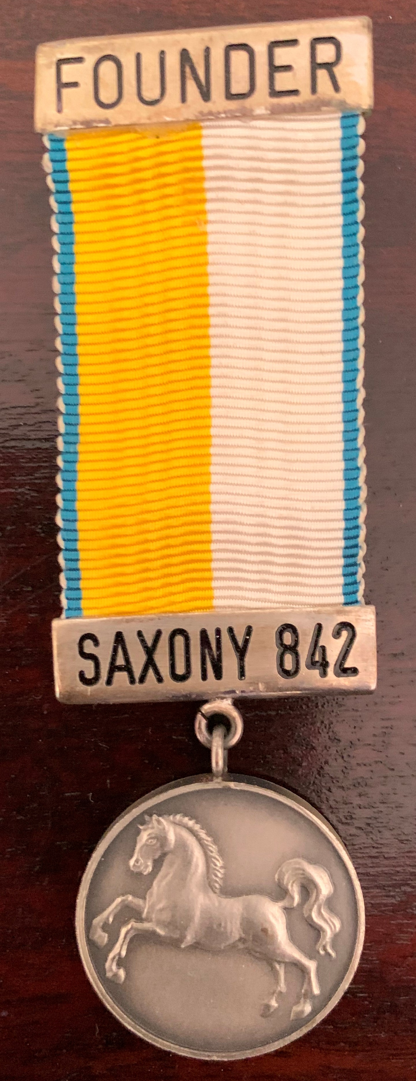 Saxony Lodge 842 Founders Jewel, worn by founding Lodge members, has an added ribbon of yellow and white which represents the colors of Celle, where are lodge was founded in 1957. Copies of which are held in the Celle town archives along with the consecration summons